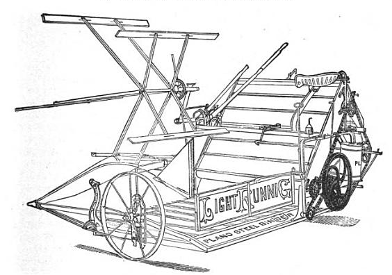 Drawing of the Plano Binder, built by Marsh, Steward & Company